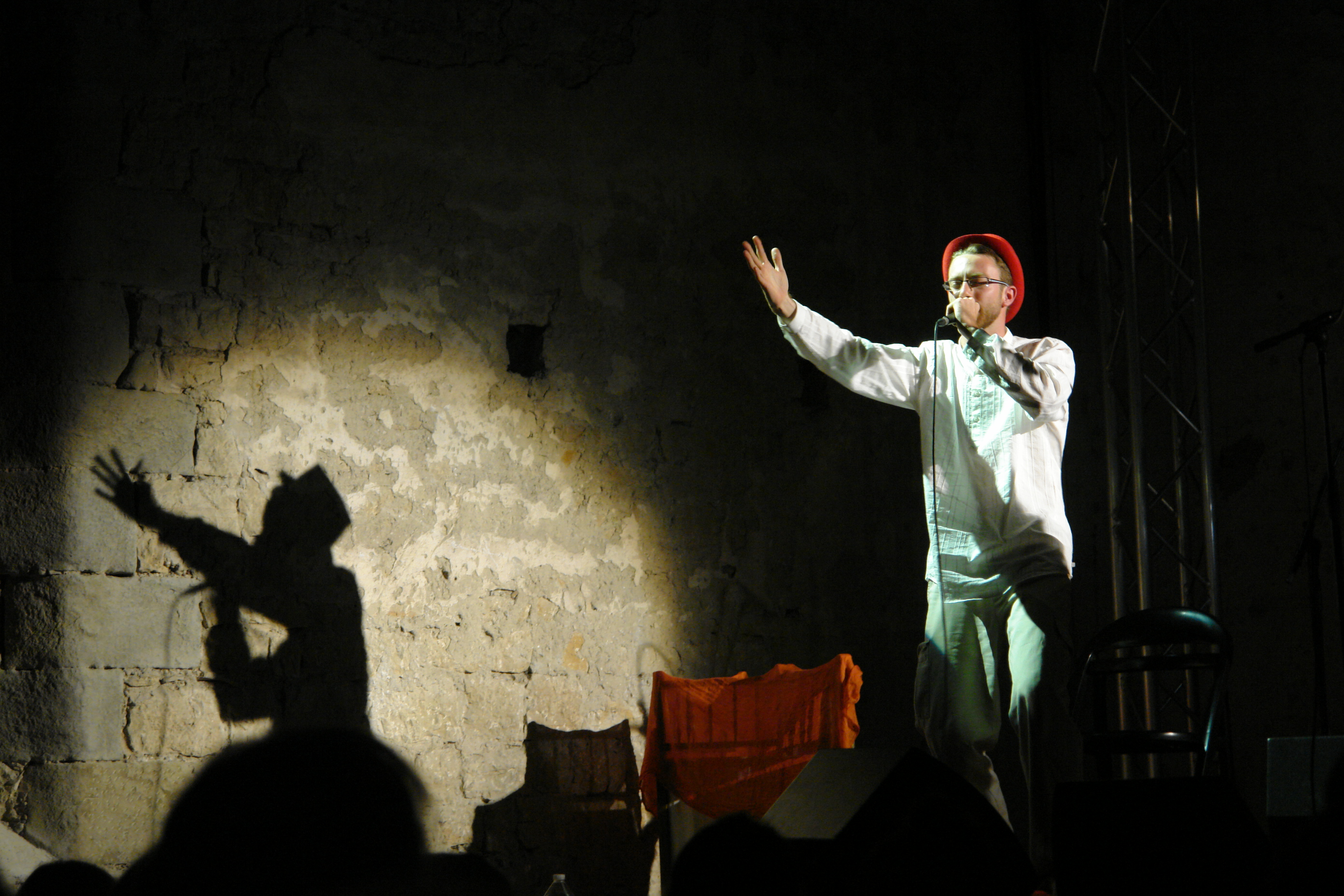 "Passage" group, Hautecombe Nights, Savoie, France, 2008.